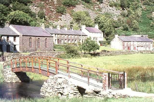 Footbridge at Betws Garmon The footbridge across the Afon Gwyrfai at Betws Garmon.